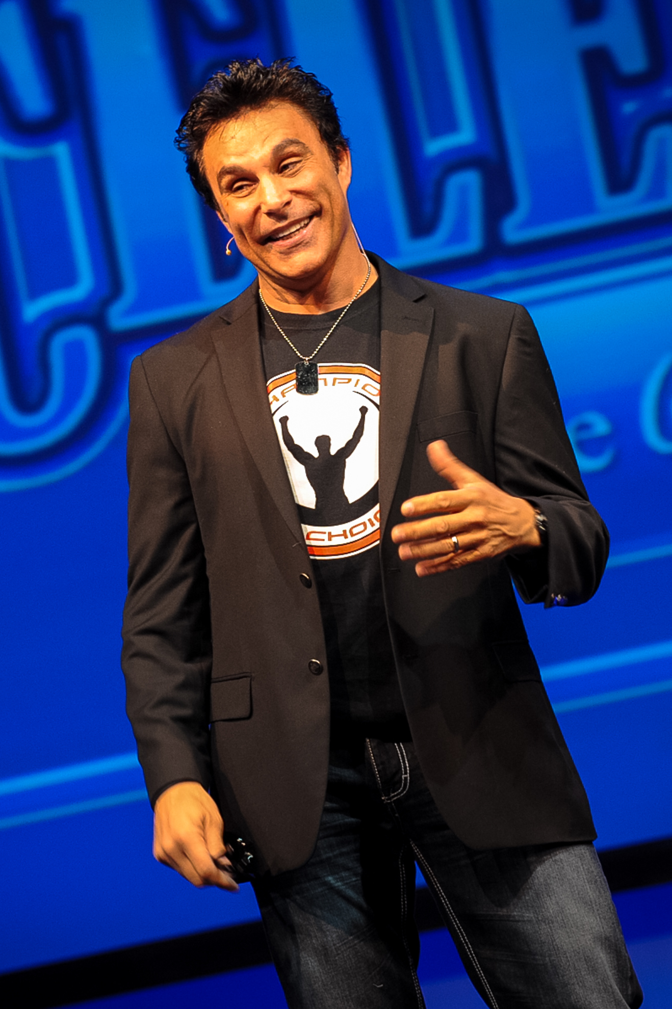 Marc Mero speaking at Disney Social Media Moms Celebration in May 2013. Cropped from original.